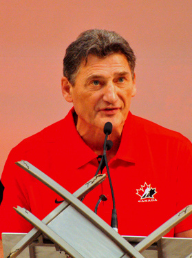 Canadian national junior team head coach Don Hay in a press conference for the 2012 World Juniors in Edmonton, Alberta.